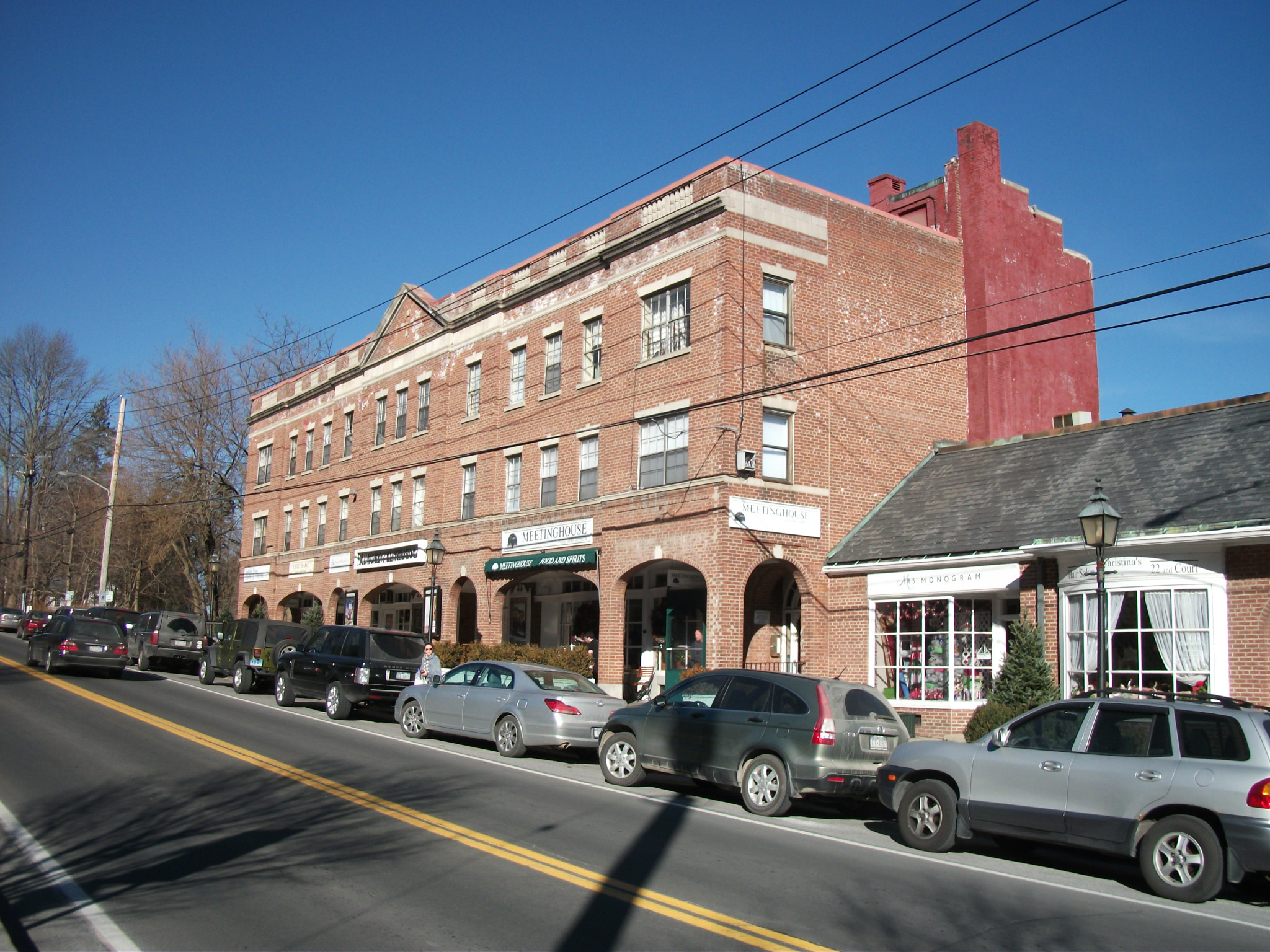 Buildings in the Bedford Village Historic District